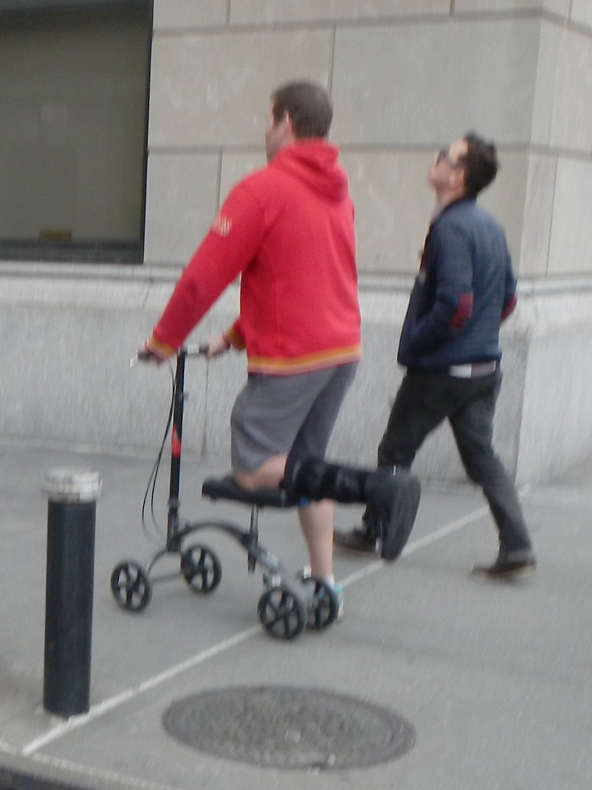 Looking north at knee scooter leaving Central Park West on 75th Street on a cloudy afternoon.